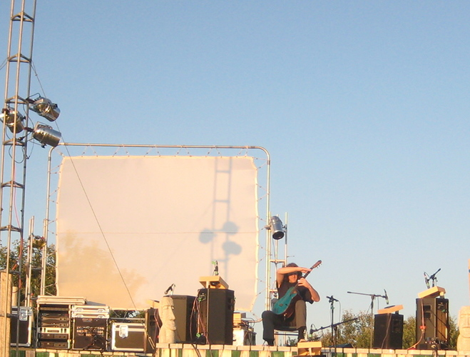 The photo shows guitarist, improviser, and composer Andreas Paolo Perger at the 4th Electric Eclectics Festival Canada 2009 playing "Concert for 5.1 surround guitar".